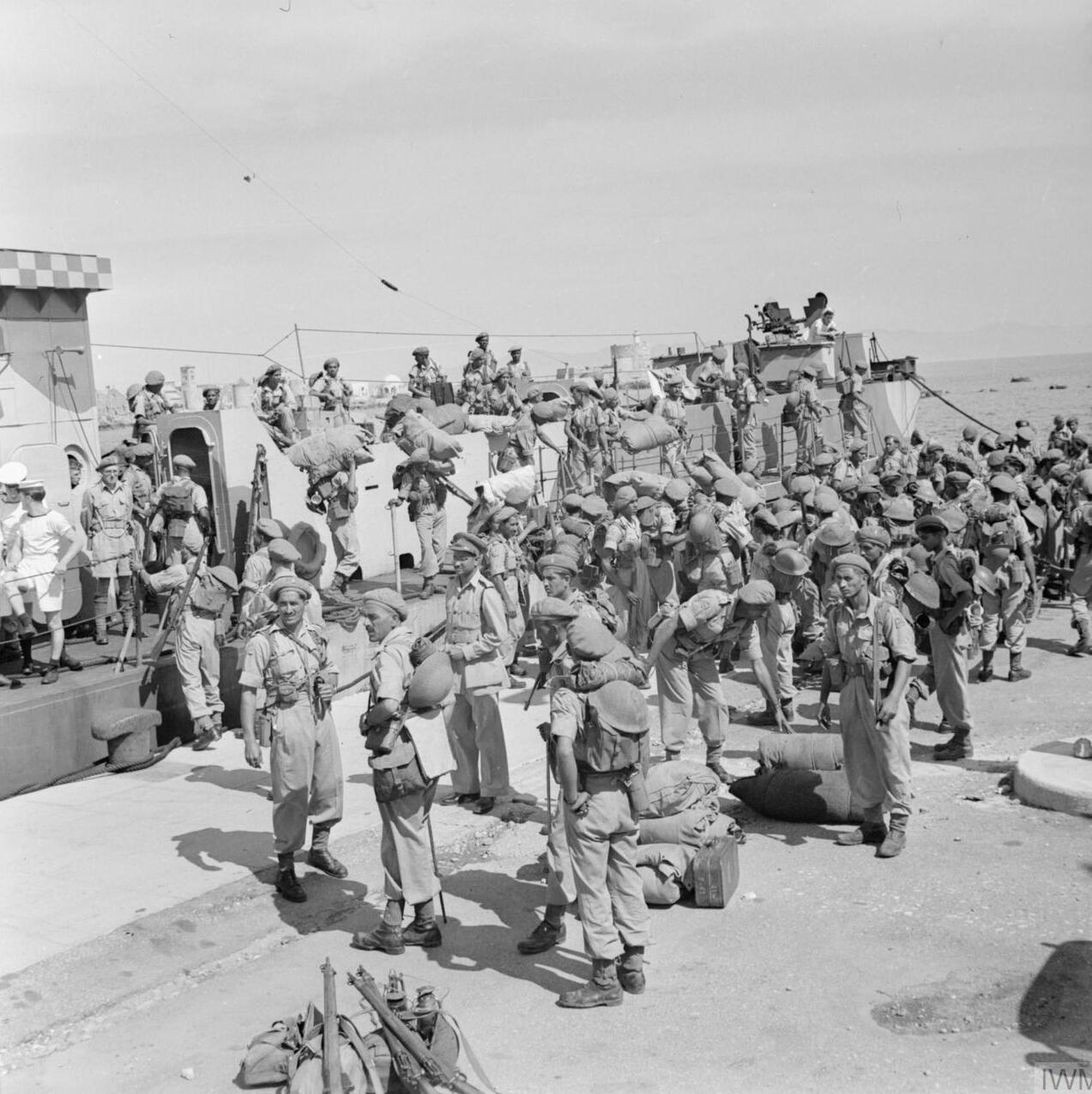 The Liberation of Rhodes, 1945 Men of the Bhopal Regiment on the quayside at Rhodes having disembarked from their infantry landing craft (LCI). Theses troops arrived from the Aegean island of Symi following the signing of the unconditional surrender of German forces.